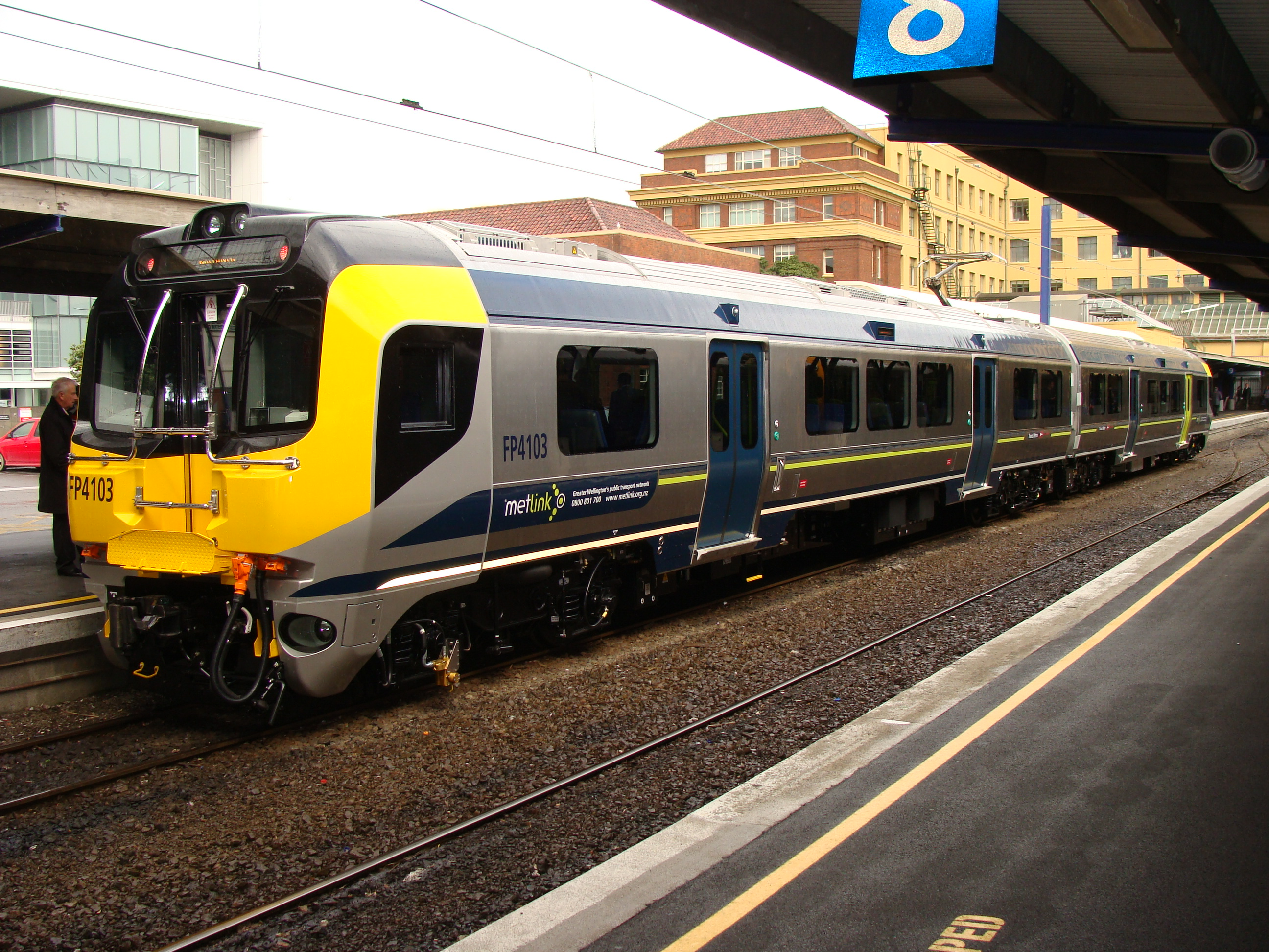 Matangi electric multiple unit train FP/FT 4103 at Wellington railway station platform 9 for a public open day.